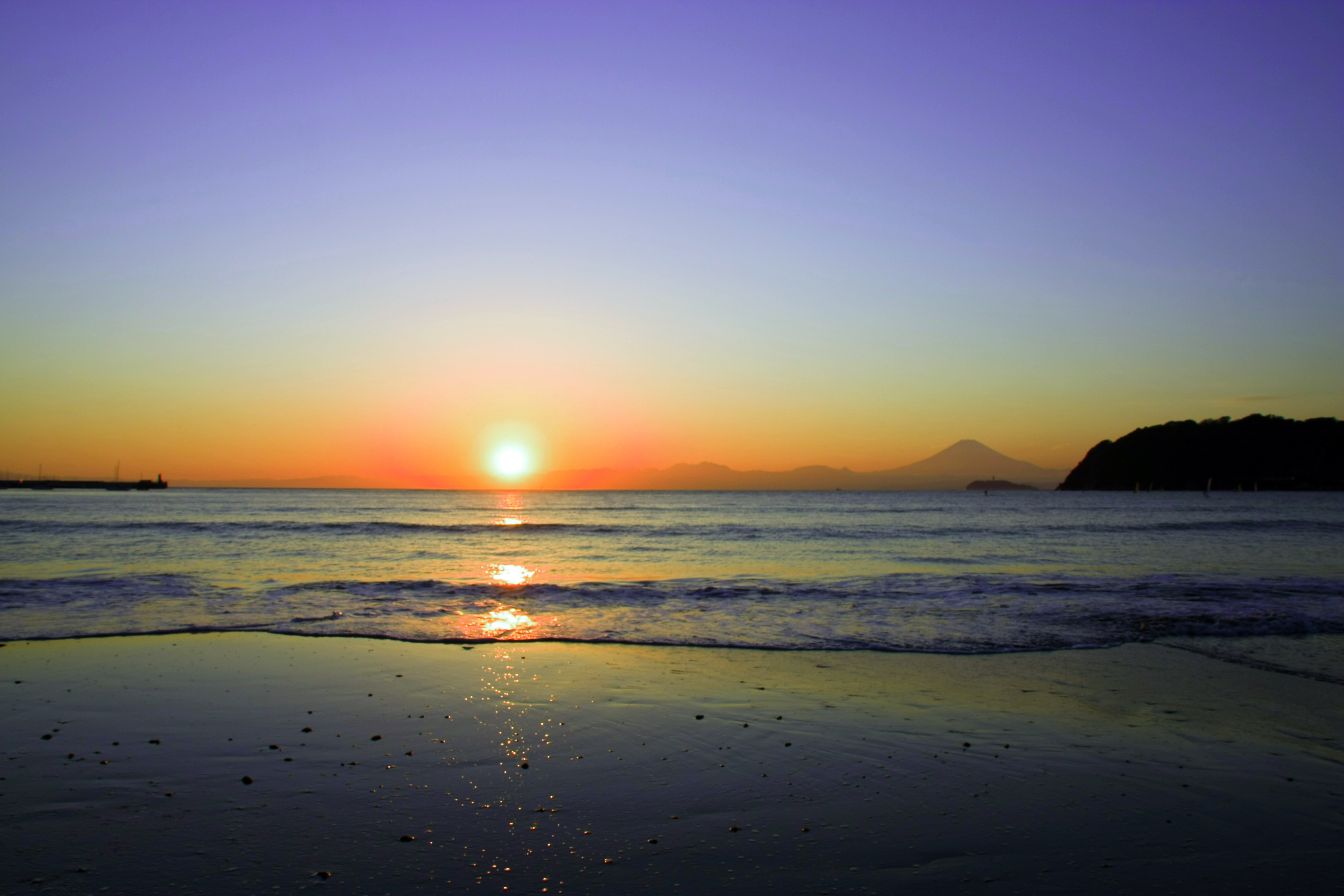 Zushi Beach in Zushi, Kanagawa pref., Japan. See where this picture was taken.